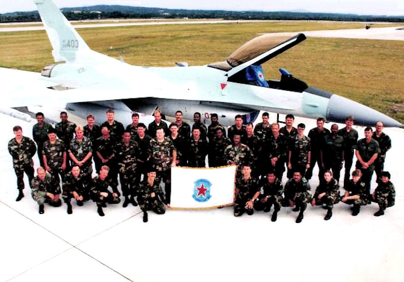 Crew group shot from the 26th Aggressor Squadron which never did in the end activate with the F-16. The F-16 is a C-model serial #88-0403. Aircraft crashed at Kunsan AB, Korea following midair collision with 86-0266 Aug 11, 1999. 86-0266 landed safely.